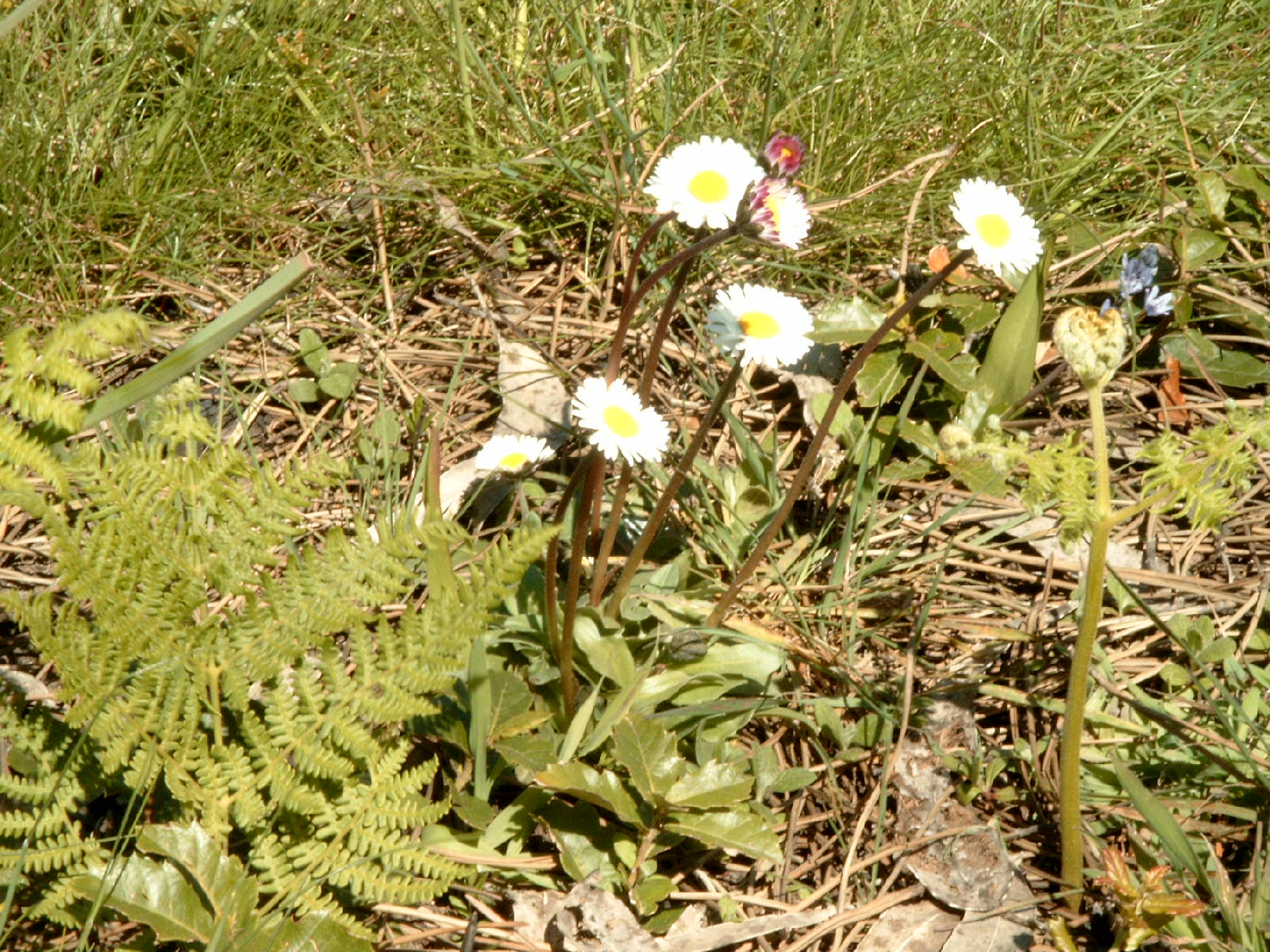 Name Bellis sylvestris Familiy Asteraceae